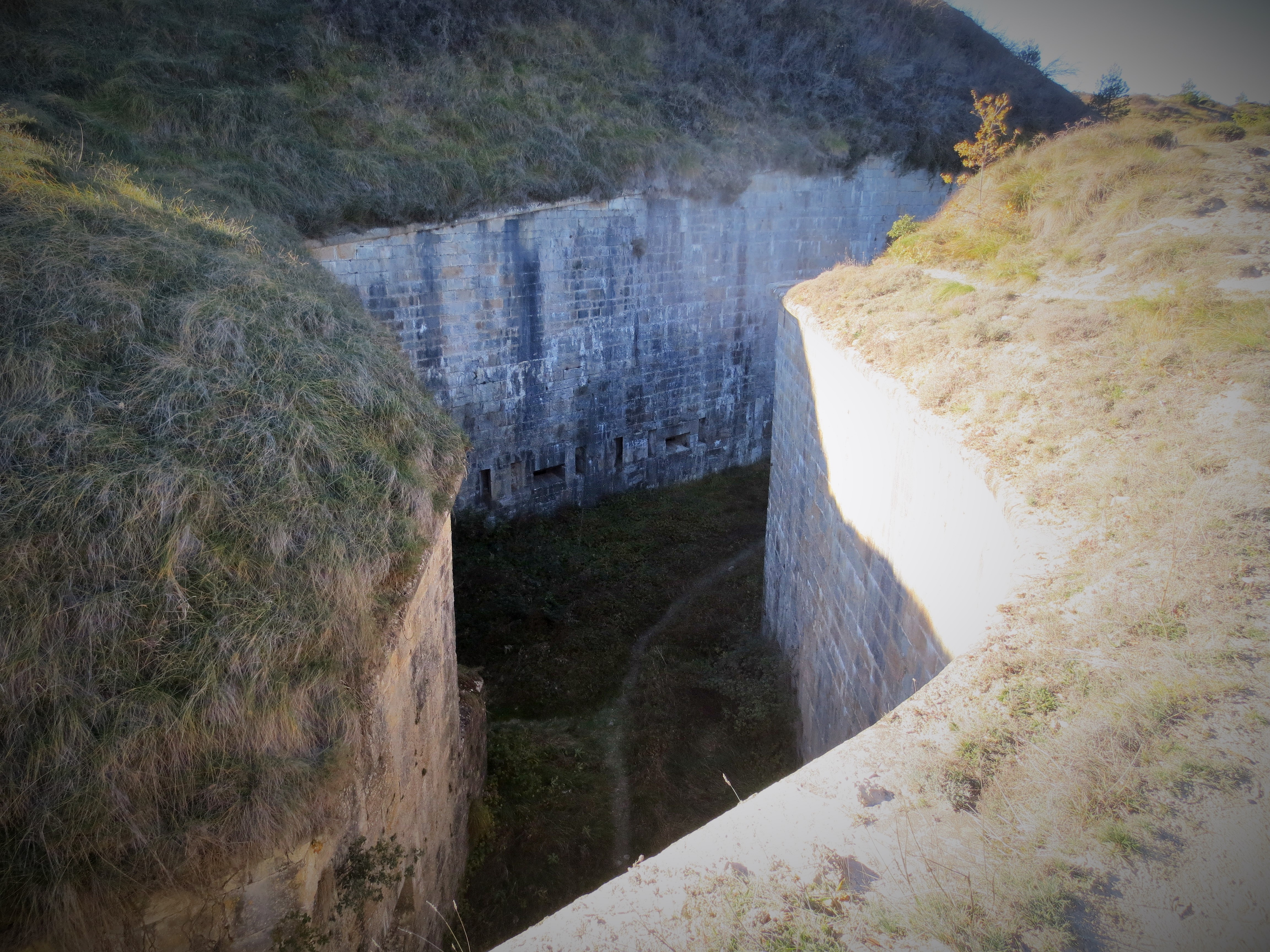 Building structures of Fortress San Cristobal in Navarre, Basque Country